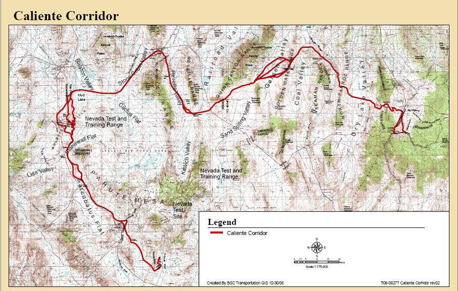 Map of the proposed Caliente Corridor route for transportation of spent nuclear fuel. (The northwest portion of the Amargosa Desert starts at the mountains at the southeast of the Sarcobatus Flat).